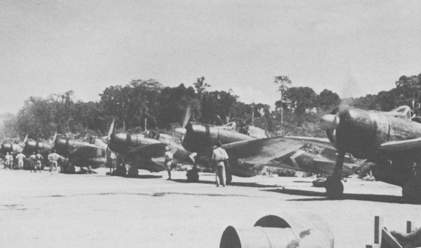 A6M Zero Model 22 fighters from the Imperial Japanese Navy aircraft carrier Zuikaku's airgroup at Buin, Bougainville in early 1943.